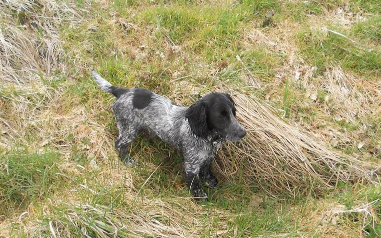 A five month old Blue Roan working type English Cocker Spaniel